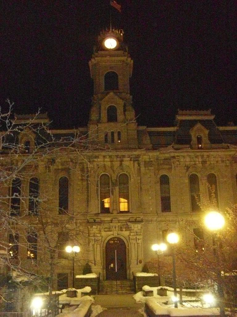 NRHP-listed Oswego City Hall in Oswego, New York.